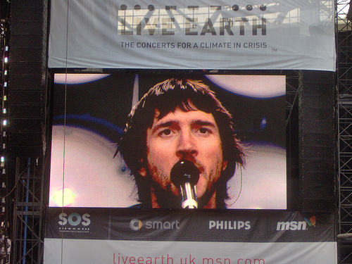 Frusciante during the Red Hot Chili Peppers' concert on Wembley Stadium in London in 2007.